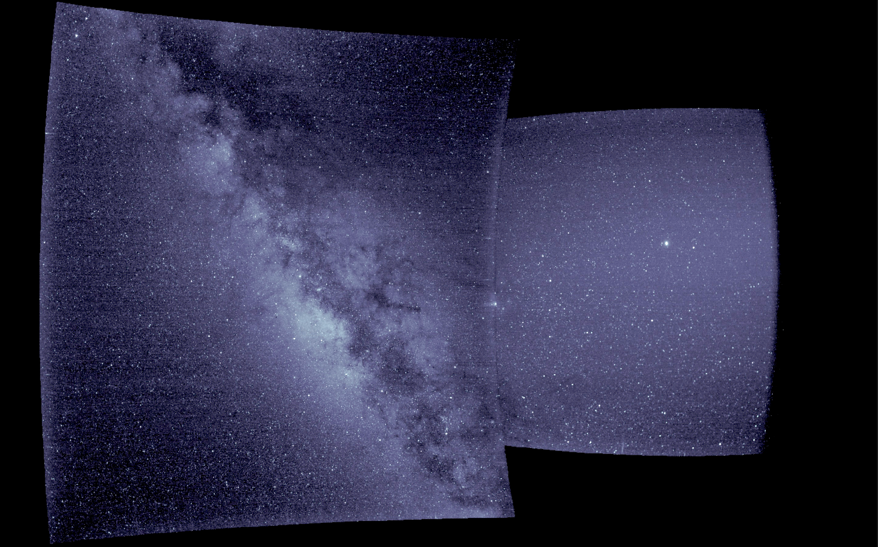 First light image from the WISPR instrument on Parker Solar Probe in September 2018